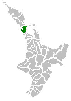 Location of Rodney District. Licenced